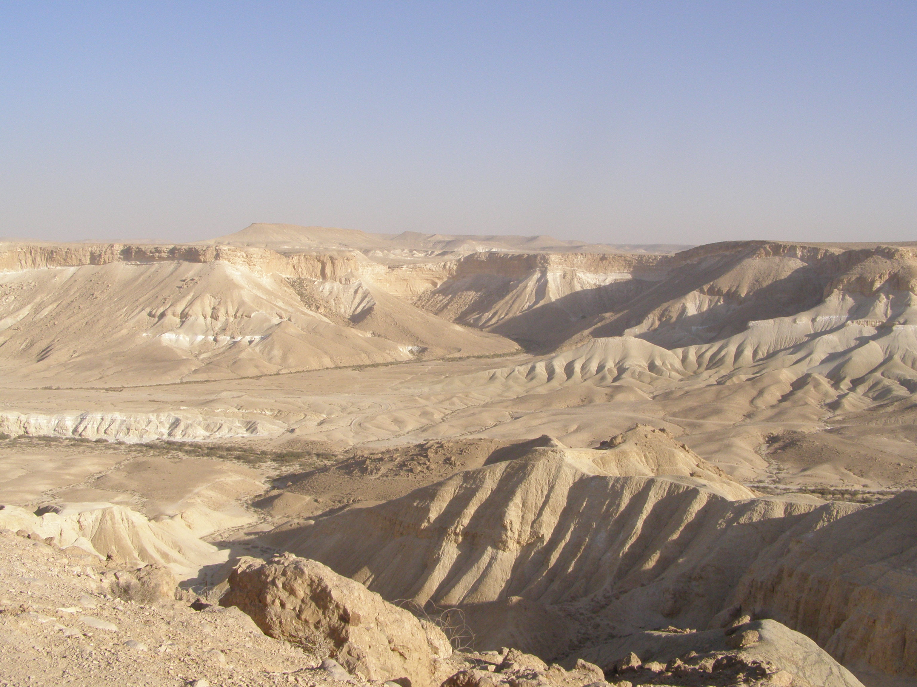 Nahal Zin, view from Midreshet Ben-Gurion